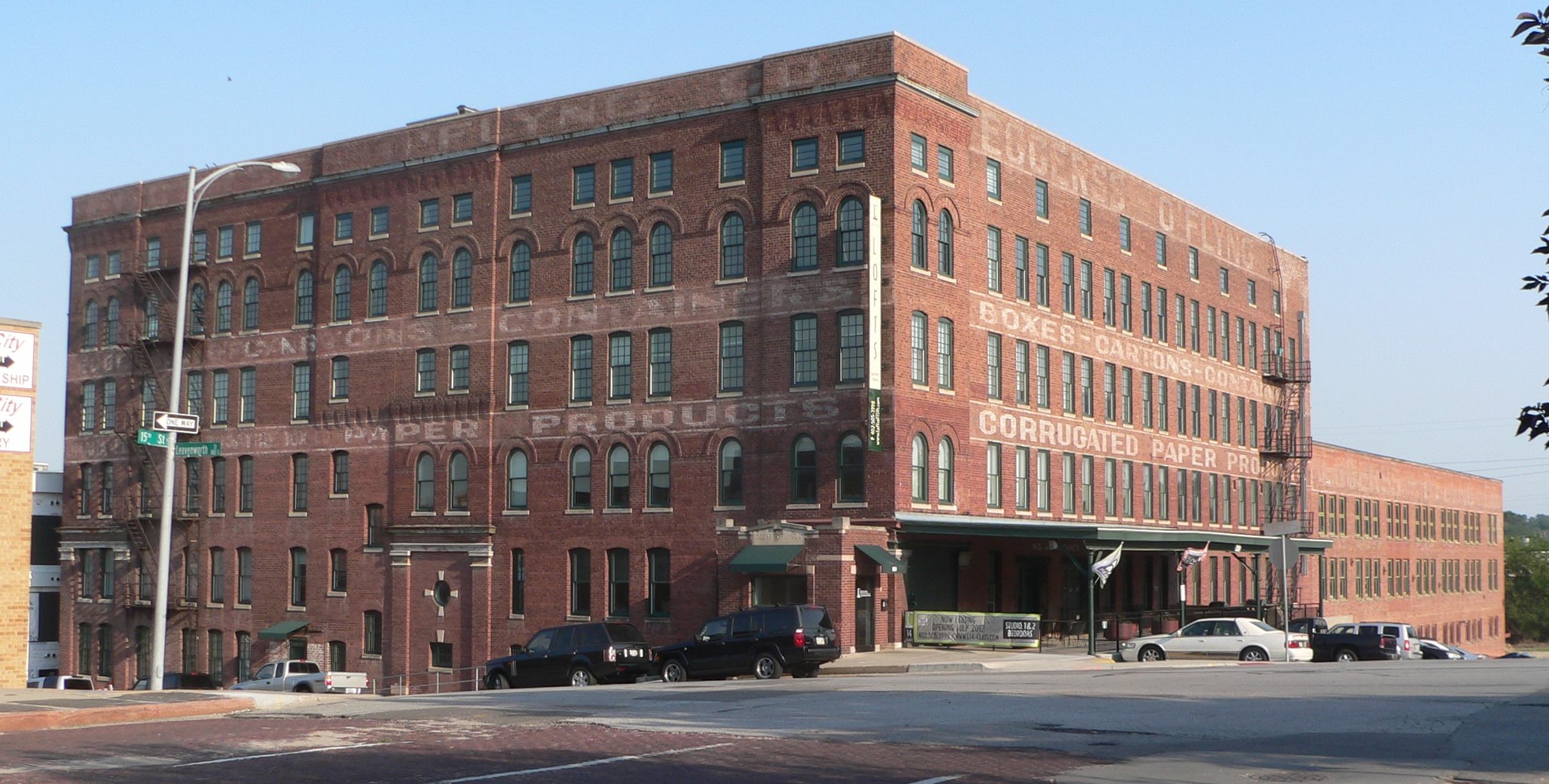 Eggerss-O'Flyng building, located at 801 S. 15th Street (southeast corner of 15th and Leavenworth Street) in Omaha, Nebraska; seen from the northwest. The shaded north side faces Leavenworth; the sunlit west side faces 15th.